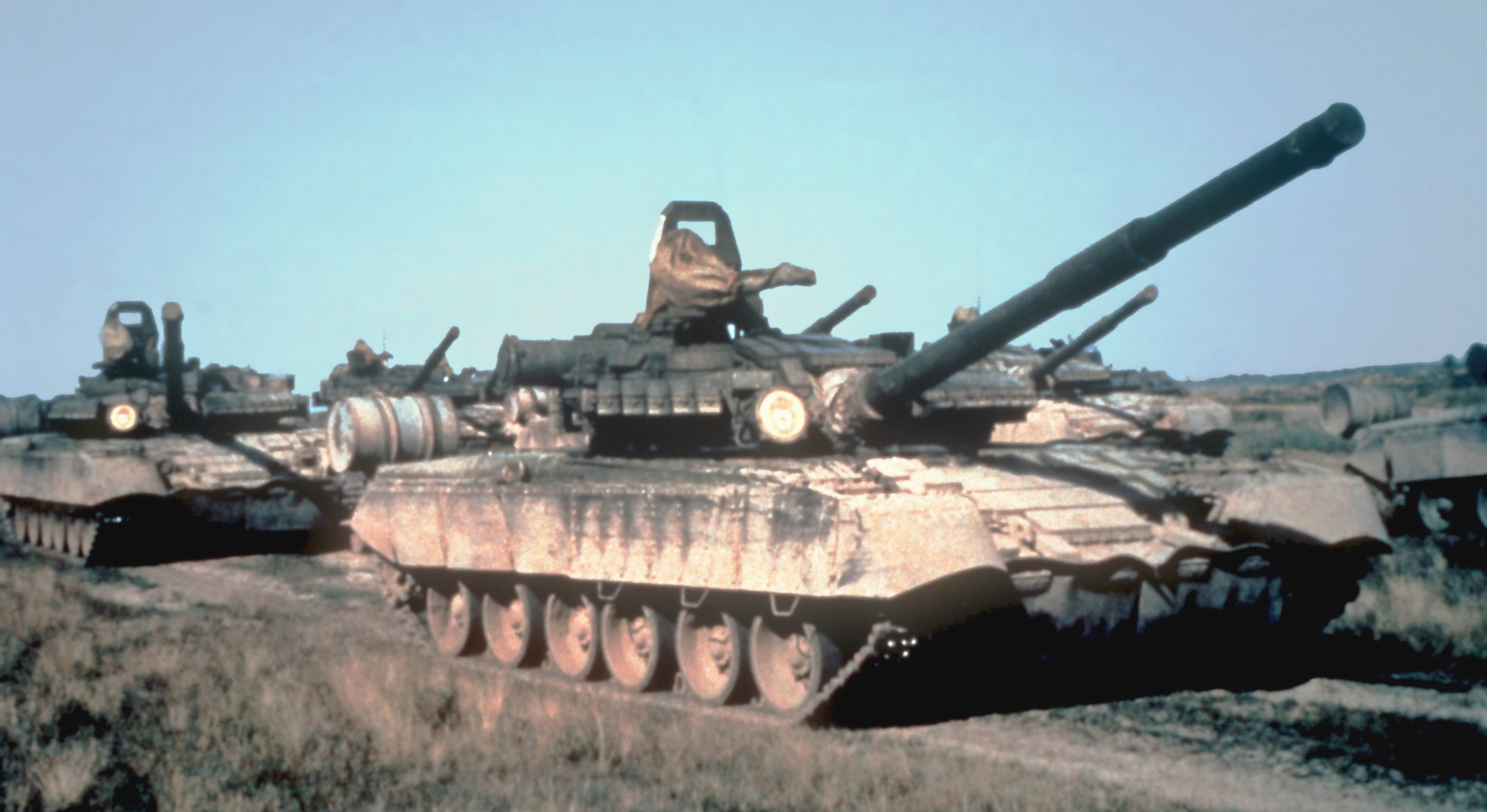 Colour and brightness rebalance of a US Gov source picture